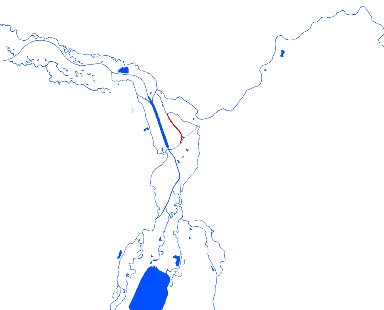 The Waterknot of Leipzig with the former Old Elster (in red)